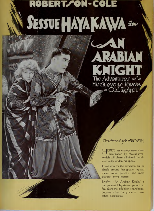 Advertisement with Sessue Hayakawa in the American drama film An Arabian Knight (1920), directed by Charles Swickard.